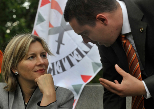 Morvai Krisztina and Vona Gábor excluded by the mainstream media, were complelled to tour the country in order to spread their message.